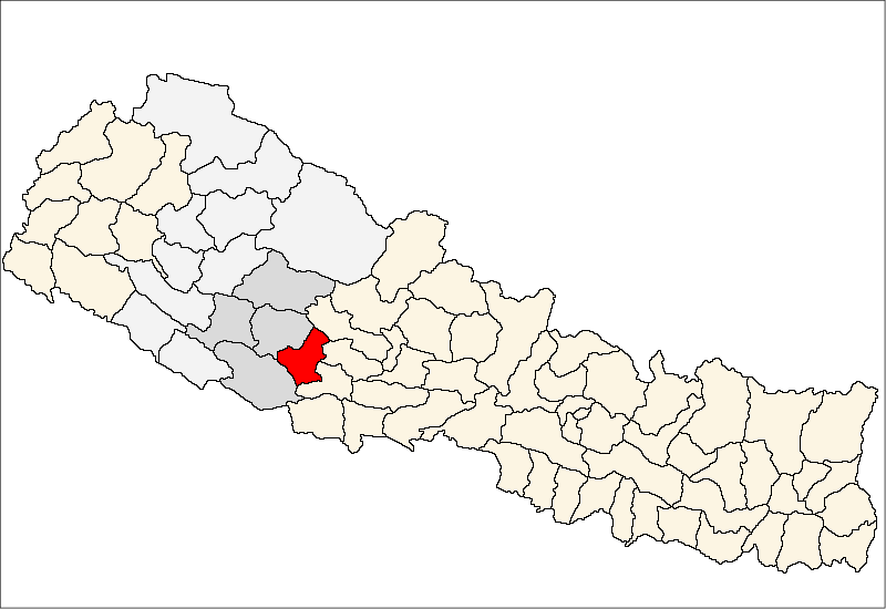 FrenchCarte de localisation dudistrict de Pyuthan(wp-FR),au Népal (wp-FR).EnglishLocation map ofPyuthan District(wp-EN),in Nepal (wp-EN).